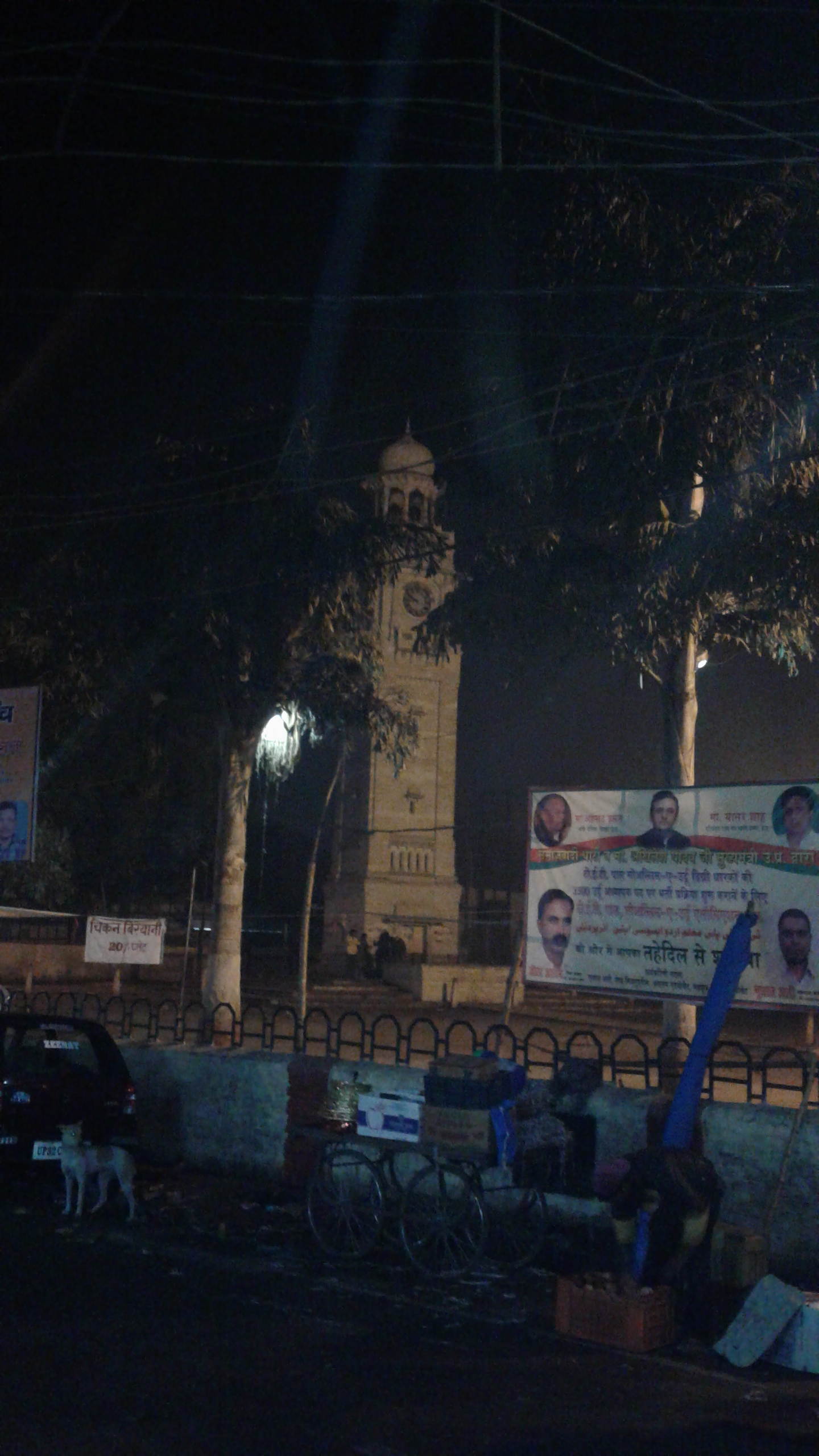 Clock Tower Bahraich is build in british India .this is heart of city bahraich and center point of city . Night view of Clock Tower from Hotel Sangam Lodge Chowk Bahraich .